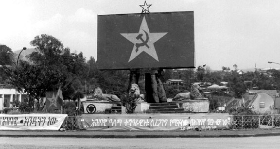 Revolutionary monument extols the virtues of communism.